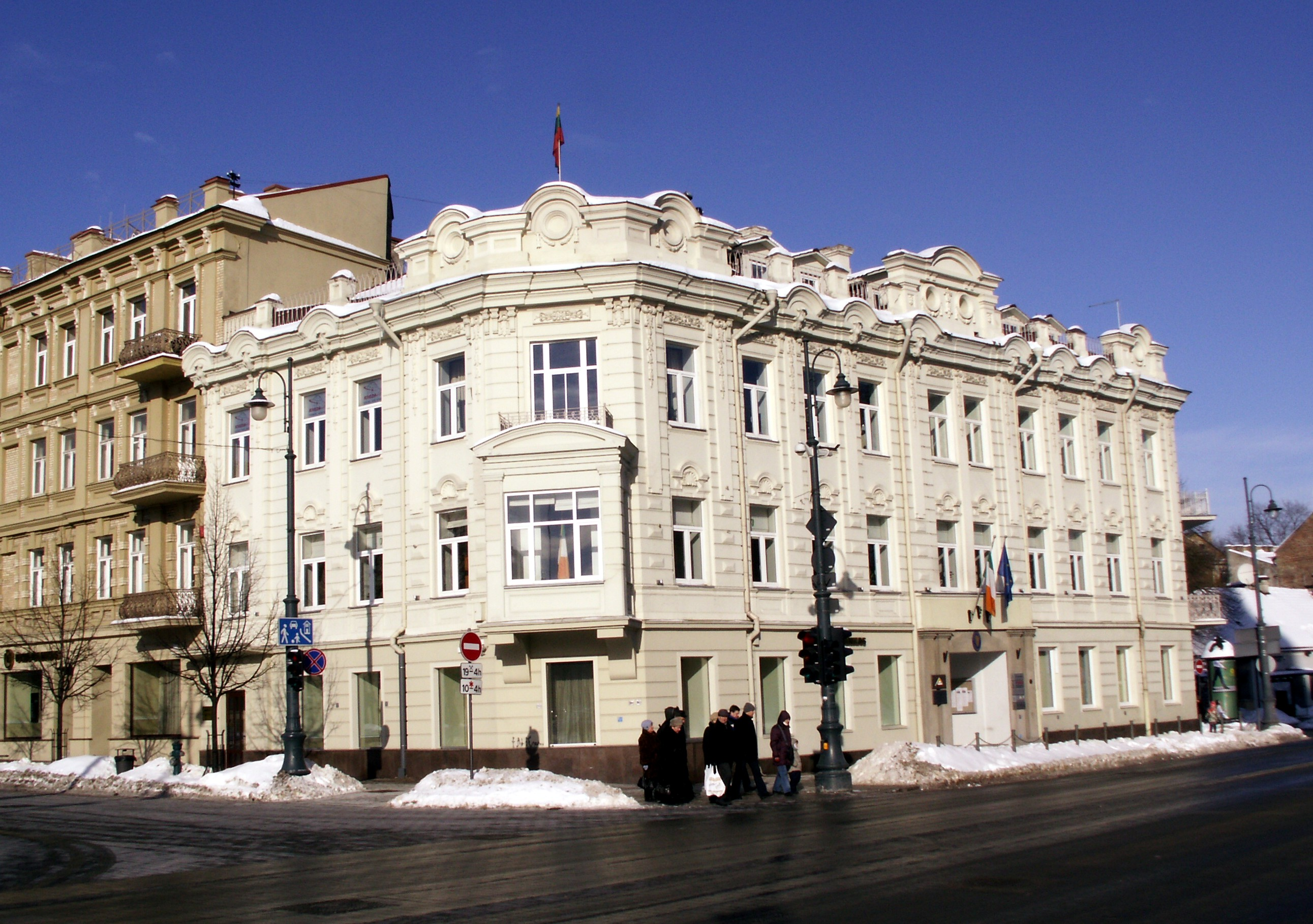 House of Sąjūdis in Vilnius, Lithuania